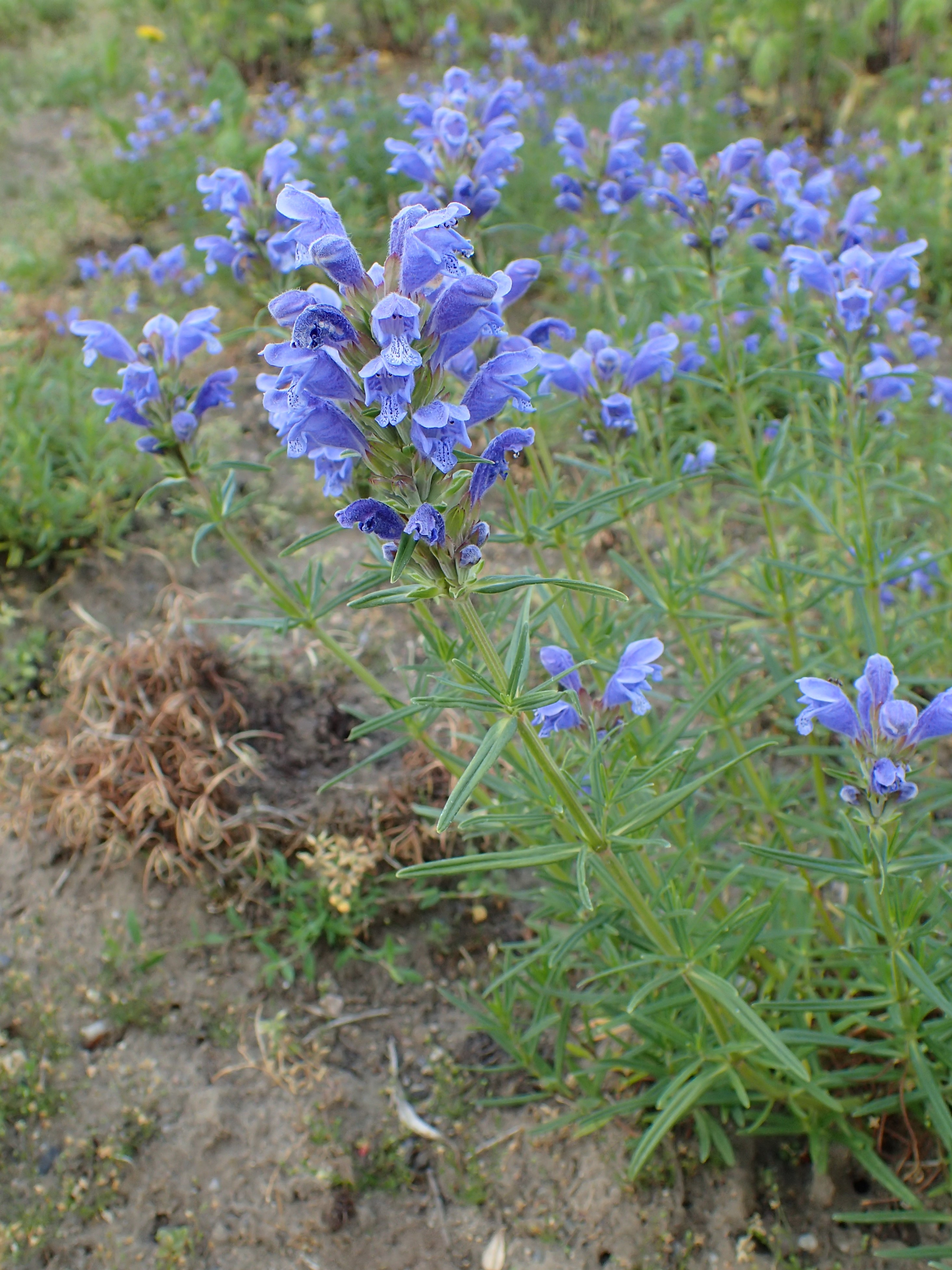 Dracocephalum ruyschiana in the Botanischer Garten, Berlin-Dahlem